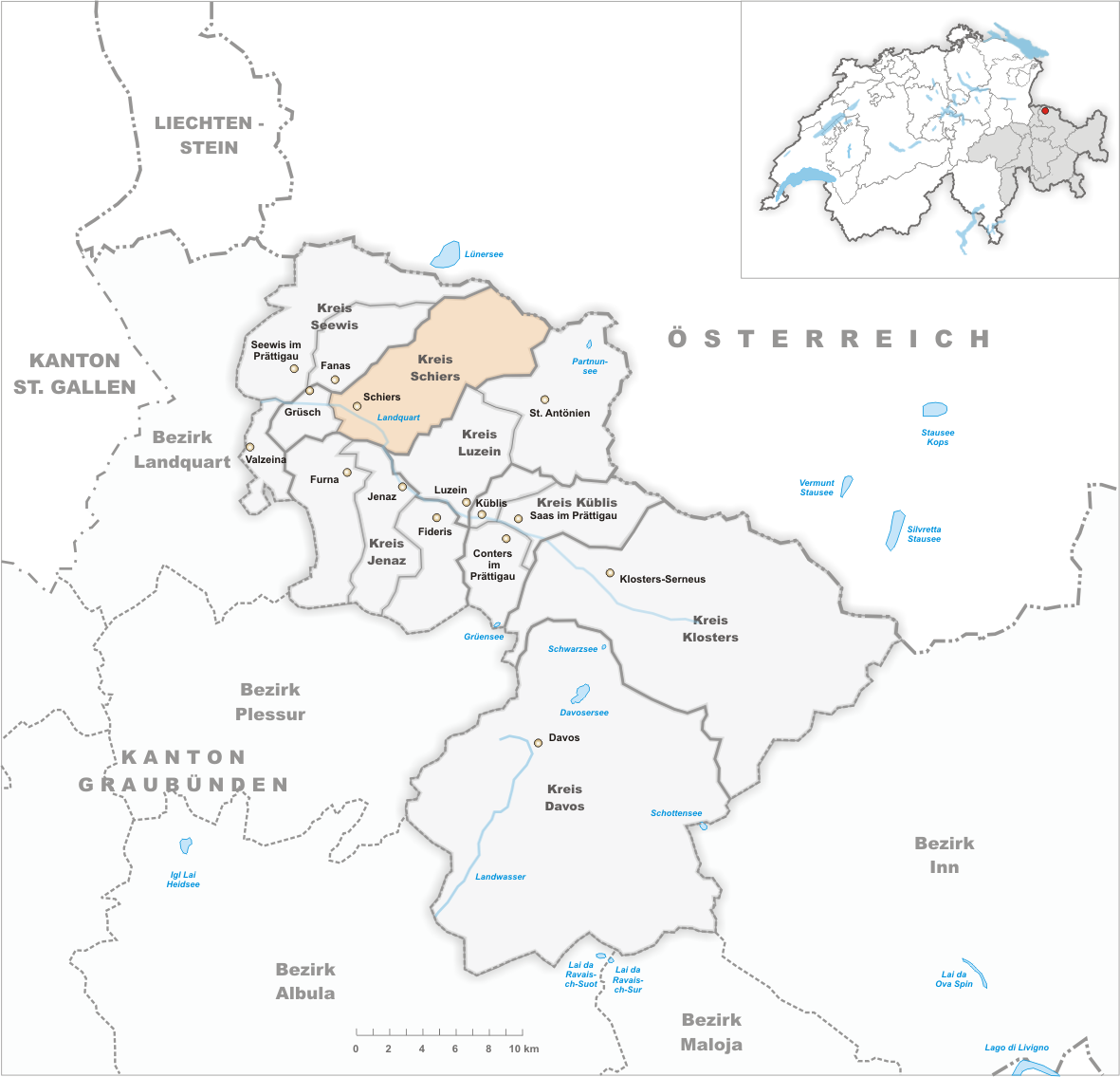 Municipality Schiers